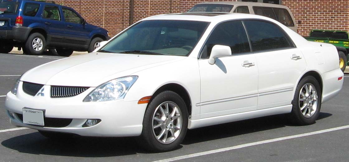 2004 Mitsubishi Diamante photographed in USA.